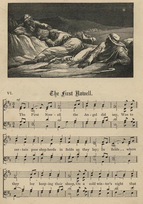 The First Nowell from an 1879 book by Henry Ramsden Bramley